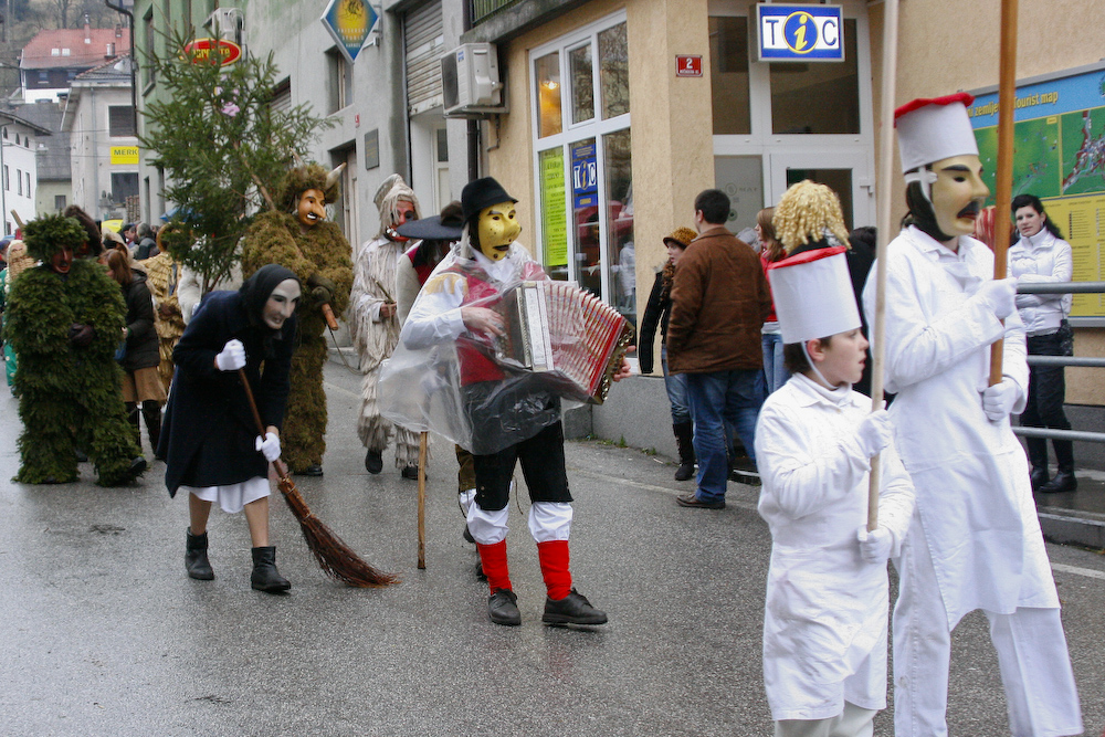 Laufarija Carnival